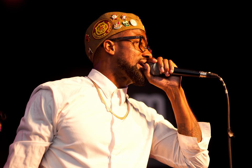 960 x 640